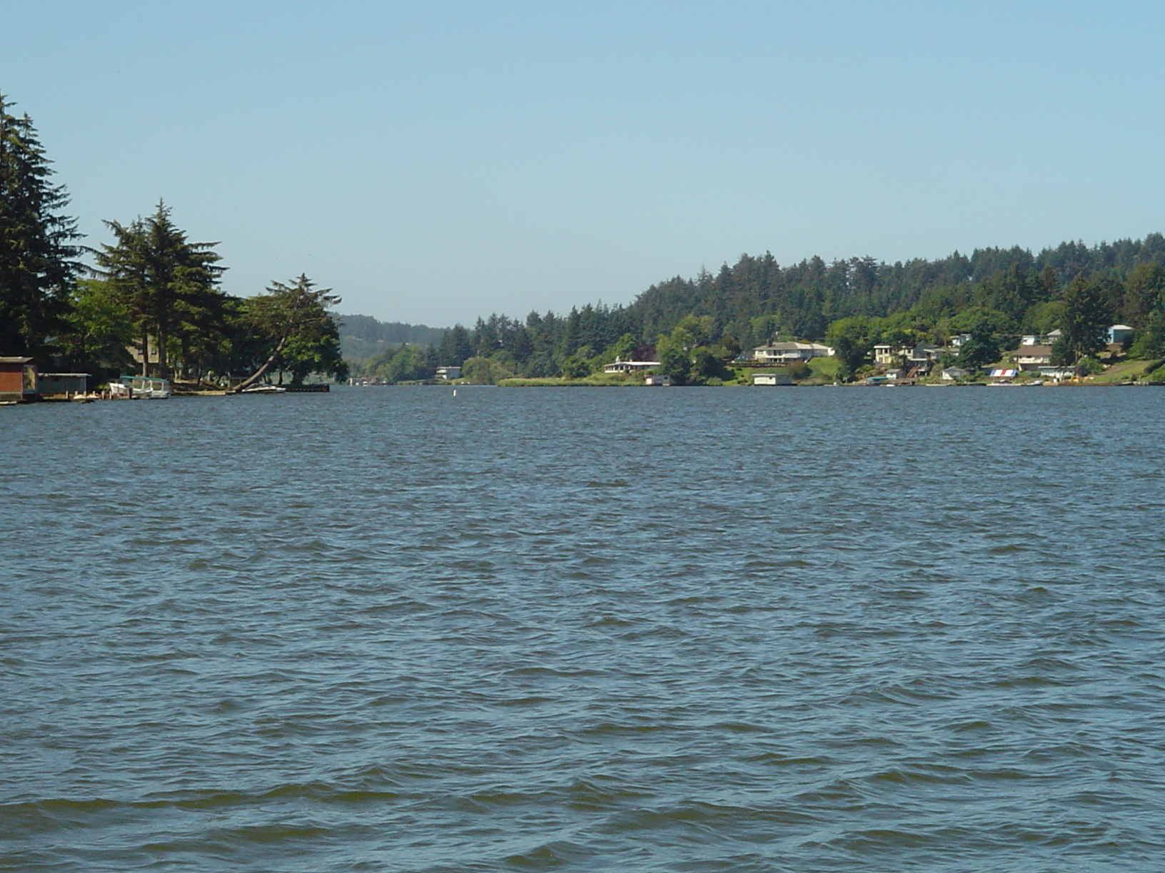 Devils Lake, Lincoln County, Oregon